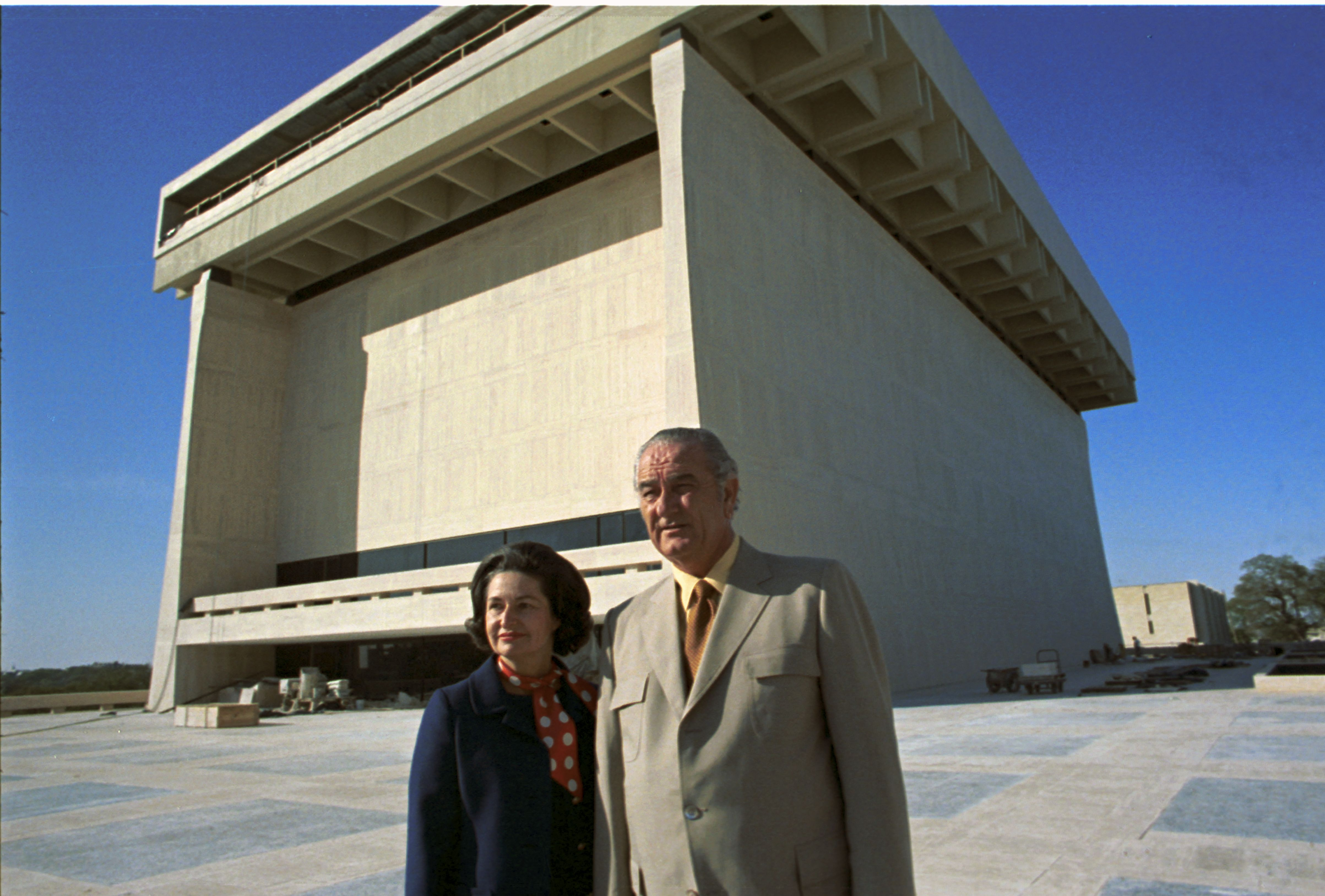 Lyndon B. Johnson with his wife Lady Bird Johnson in front of the LBJ Library & Museum in March 1971